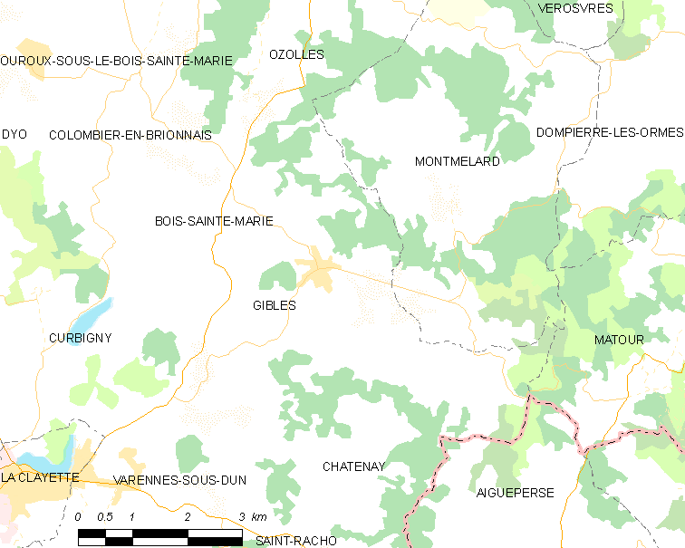 Map of French municipality